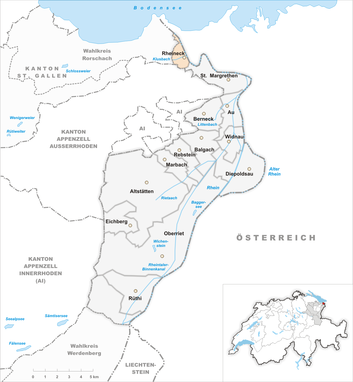 Municipality Rheineck